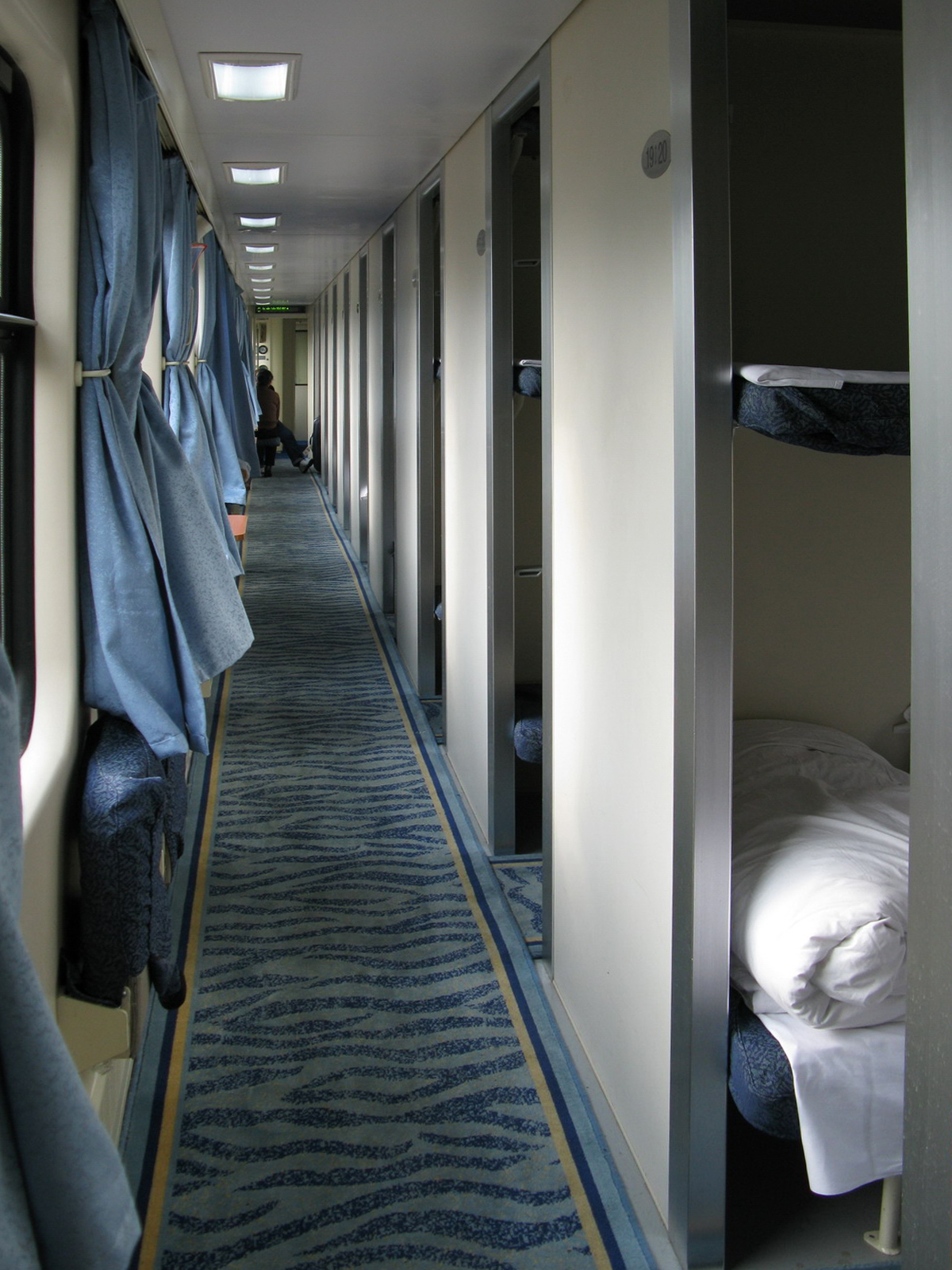 Interior of Shanghai-Kowloon Through Train (Z99/Z100) 25T Hard Sleeper Car